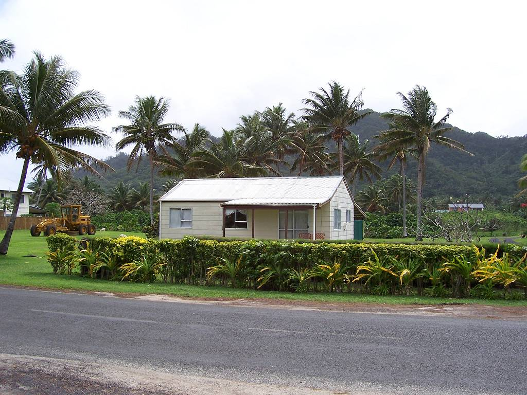 Typical scene along the Ara Tapu (main road) on Rarotonga (Cook Islands).